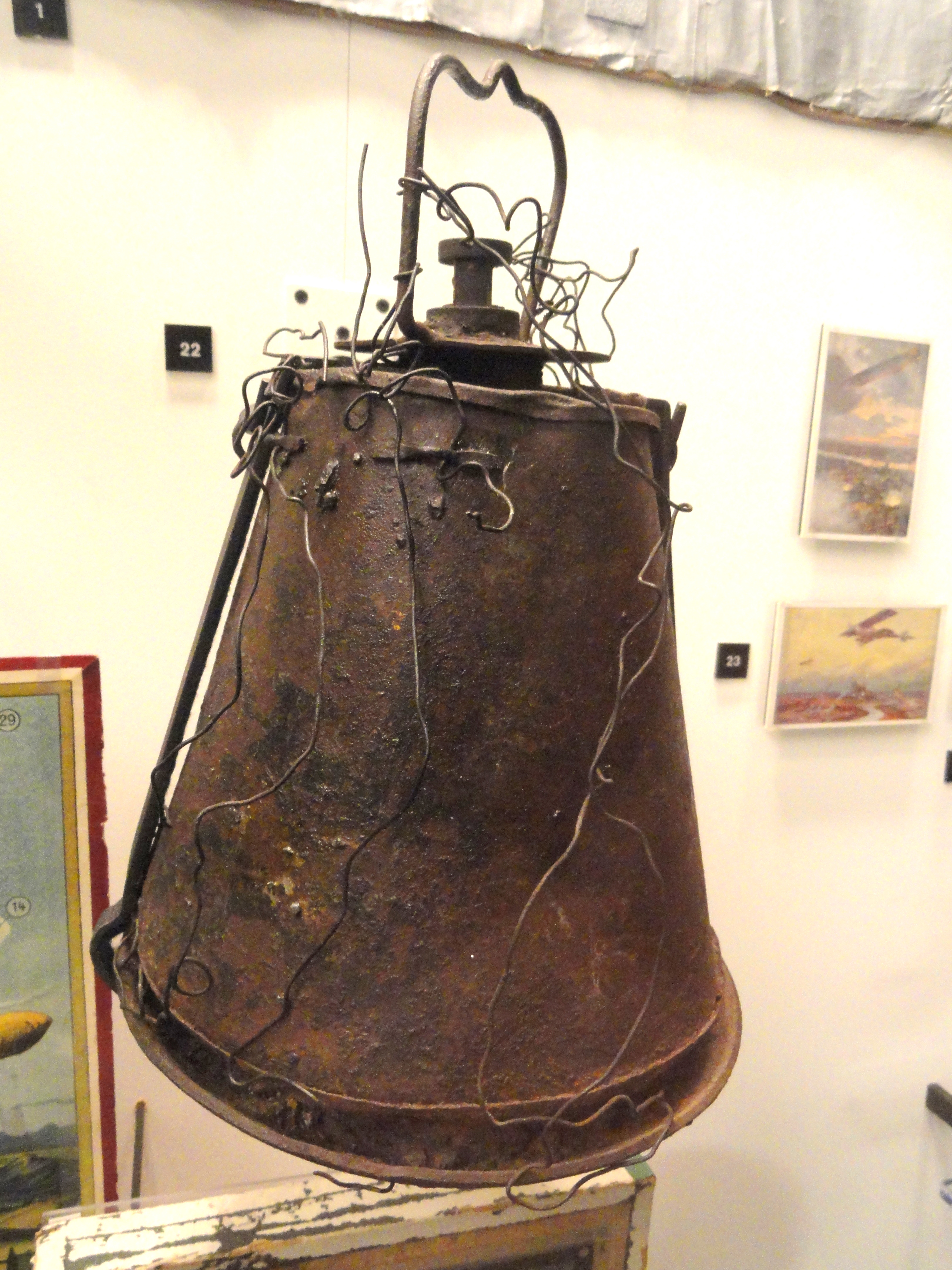 Ammunition exhibited in the National World War I Museum at the Liberty Memorial, 100 W. 26th Street, Kansas City, Missouri, USA.